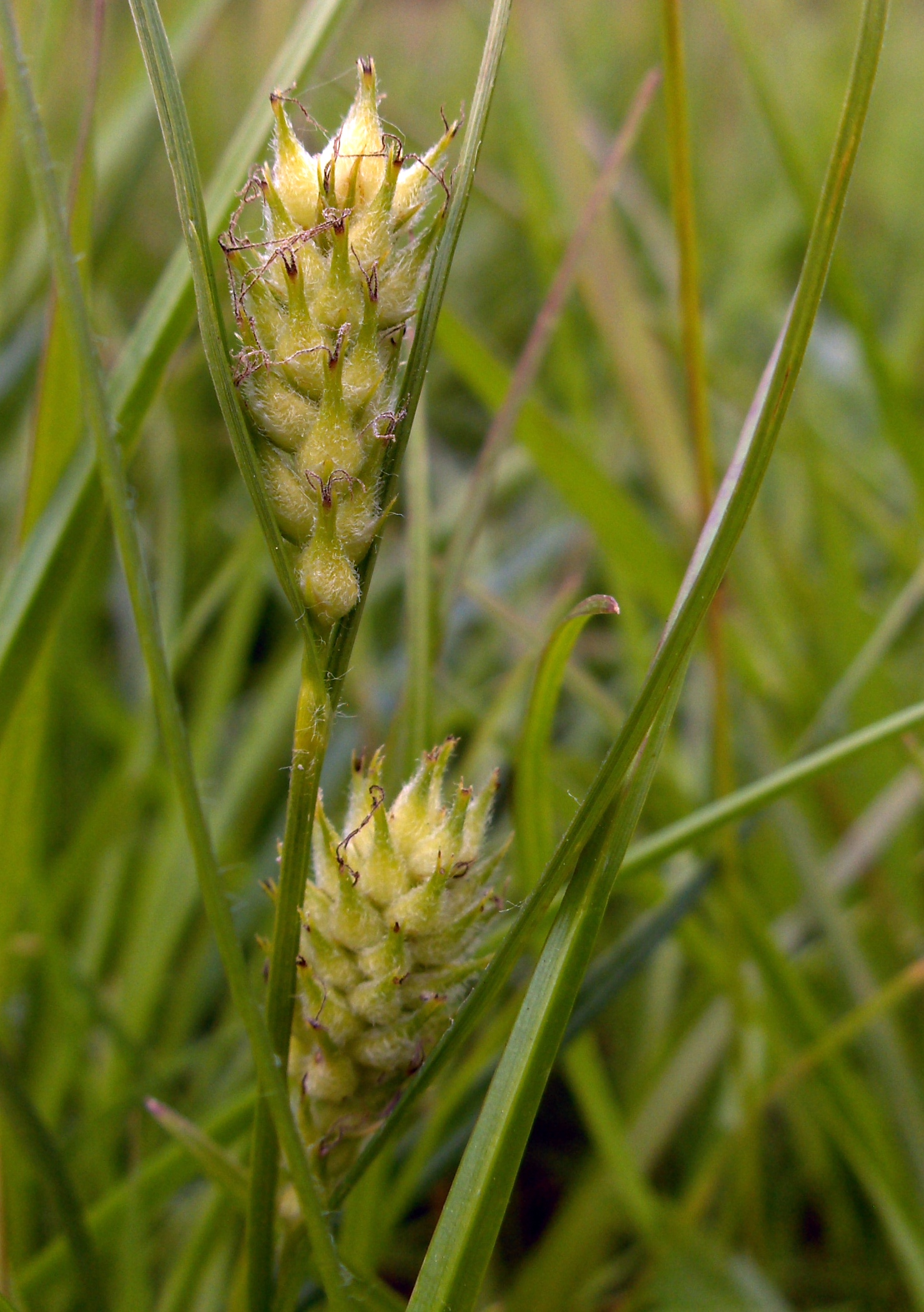 Female spikes of Carex hirta